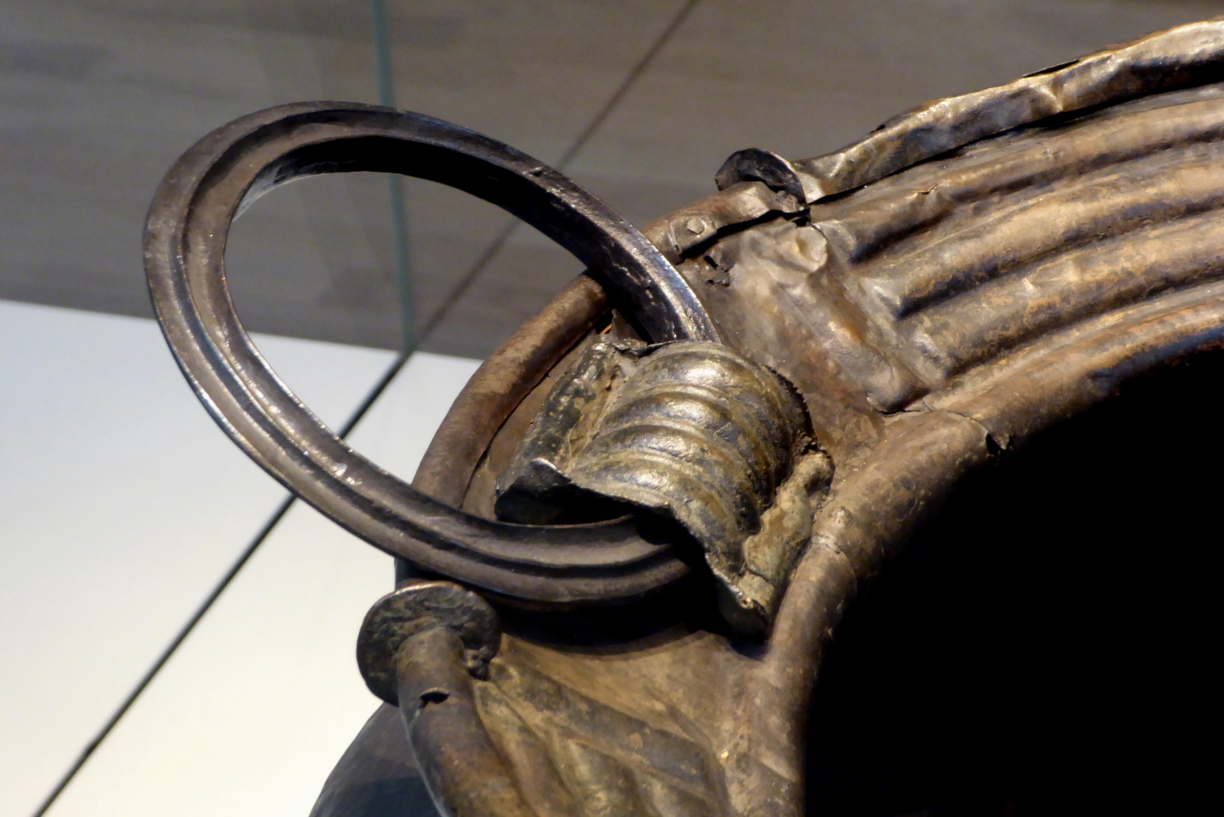 The Battersea cauldron, dated to between 800 and 650 BCE, recovered from the River Thames at Battersea, London. On display in Room 50 at the British Museum (PE 1861,0309.1).